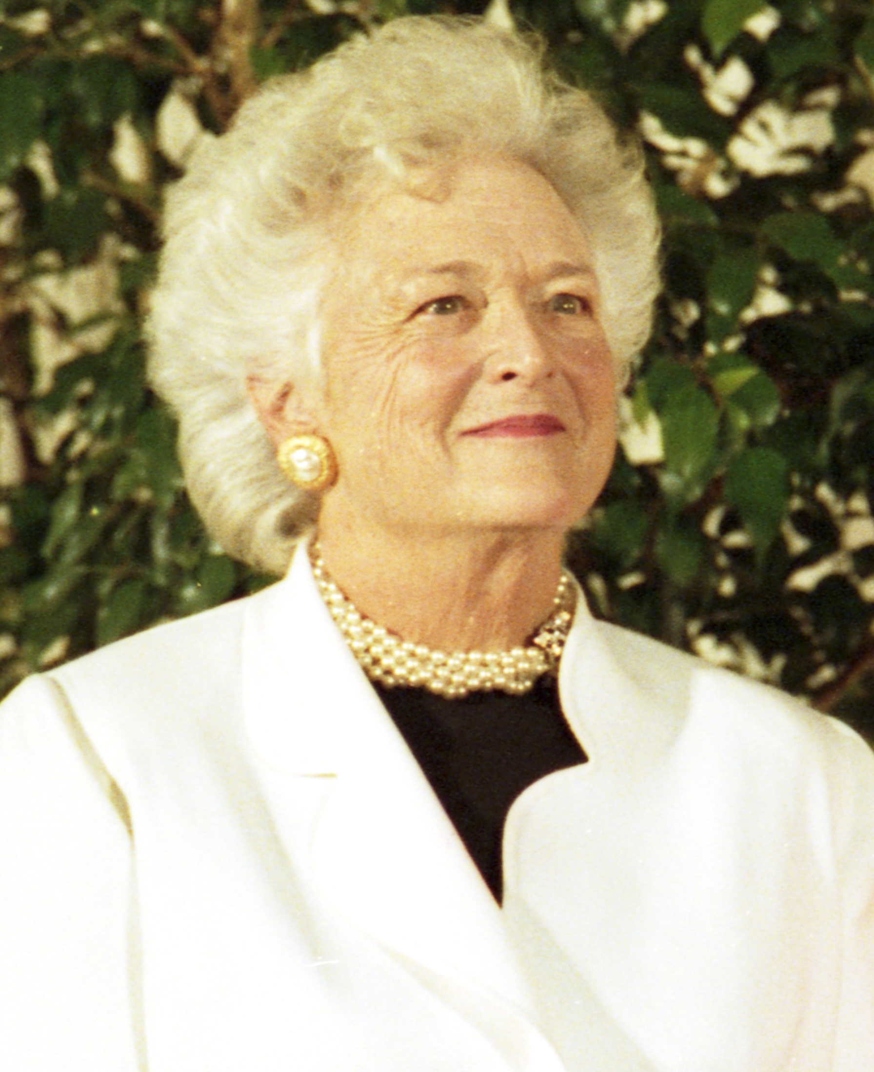 First Lady Barbara Bush in 1991